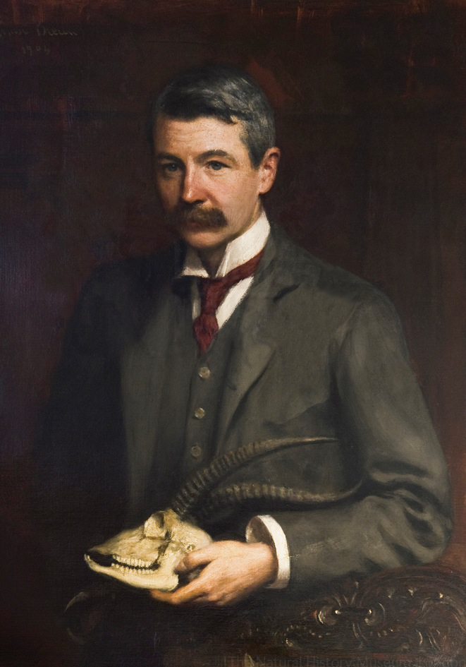 Michael Rogers Oldfield Thomas (1858–1929), mammal taxonomist at the British Museum (Natural History), London, who studied the Tunney Zaglossus specimen. Painting by John Ernest Breun. Courtesy of the Natural History Museum, London.